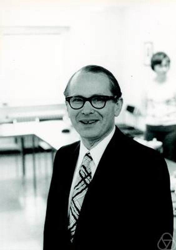 Laszlo Fuchs, Erlangen 1976